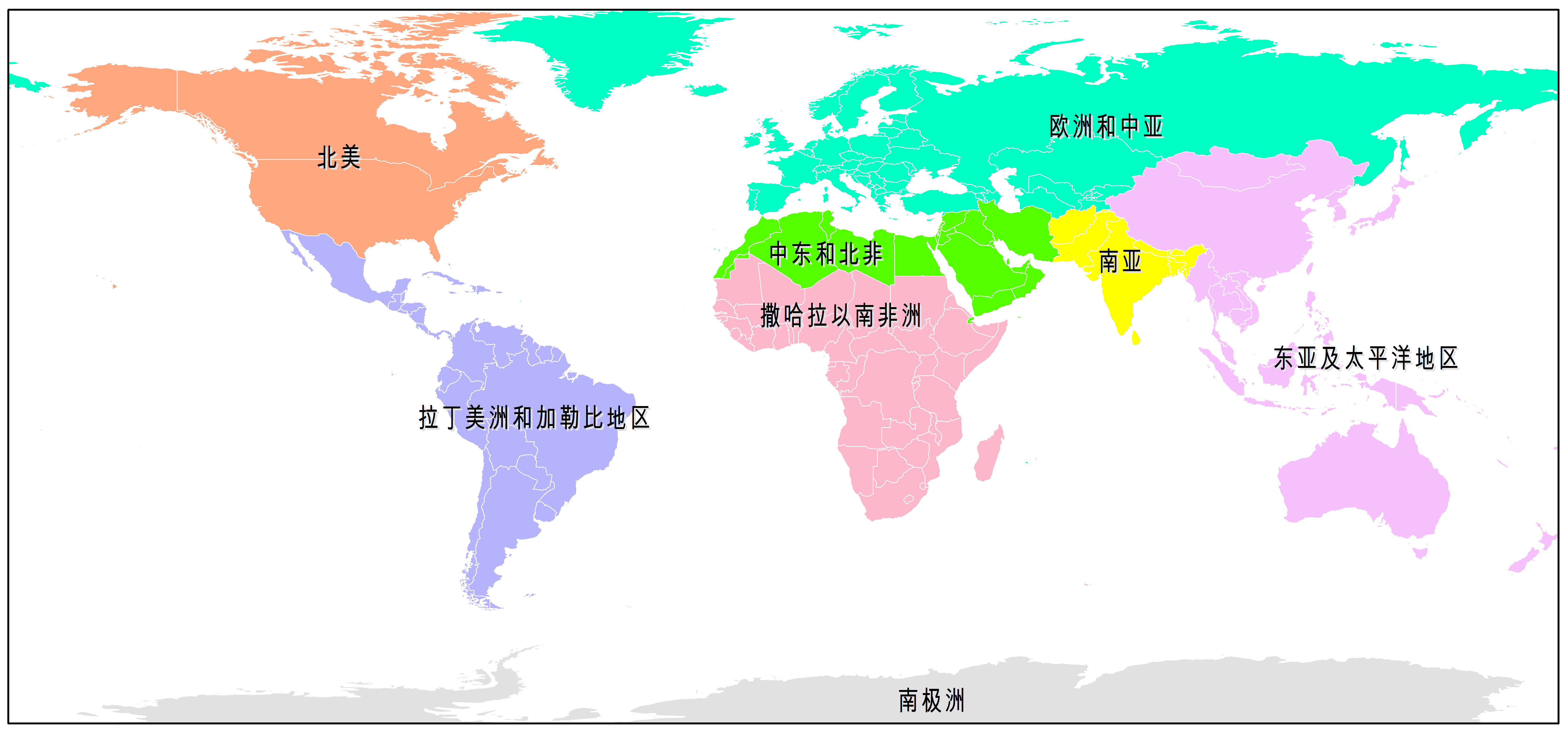 World Bank regions: countries are separated into 6 World Bank regions, separating out high-income countries as a 7th group: High Income, East Asia and Pacific, Europe and Central Asia, Latin America and the Caribbean, Middle East and North Africa, South Asia and Sub-Saharan Africa. See Definition of region groupings